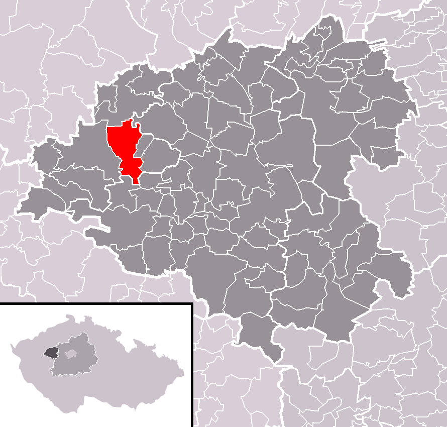 Location of Oráčov municipality within Rakovník District and (identical) administrative area of Rakovník as a Municipality with Extended Competence.